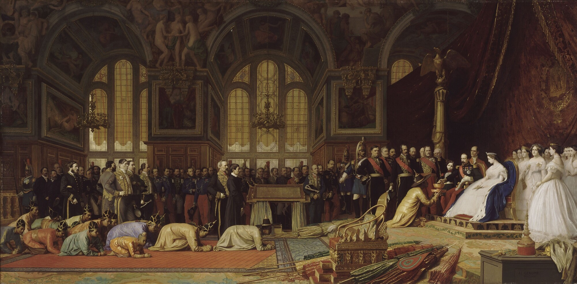 Napoleon III receiving the Siamese embassy at the palace of Fontainebleau in 1864.